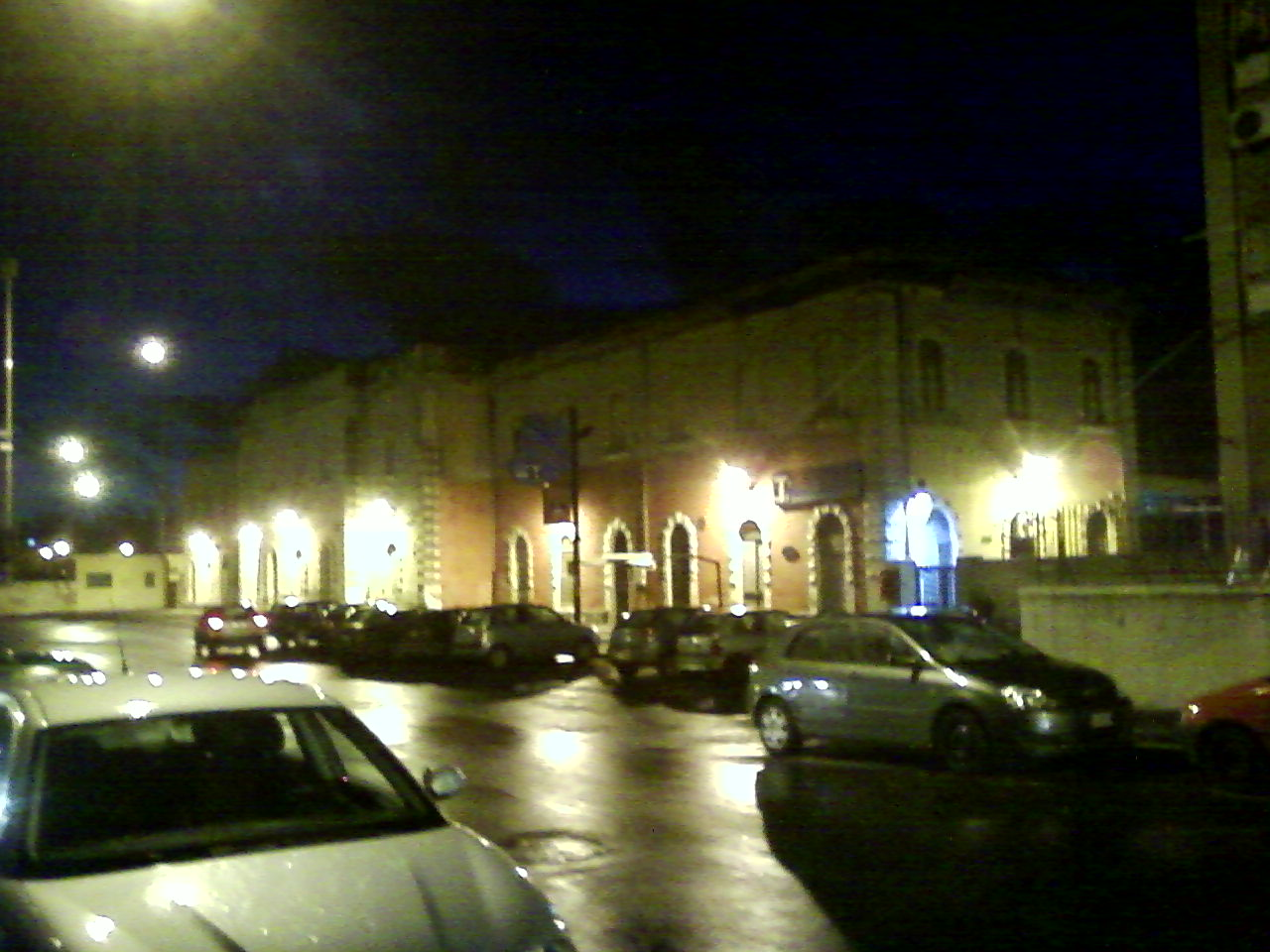 External side of the Catania Acquicella station